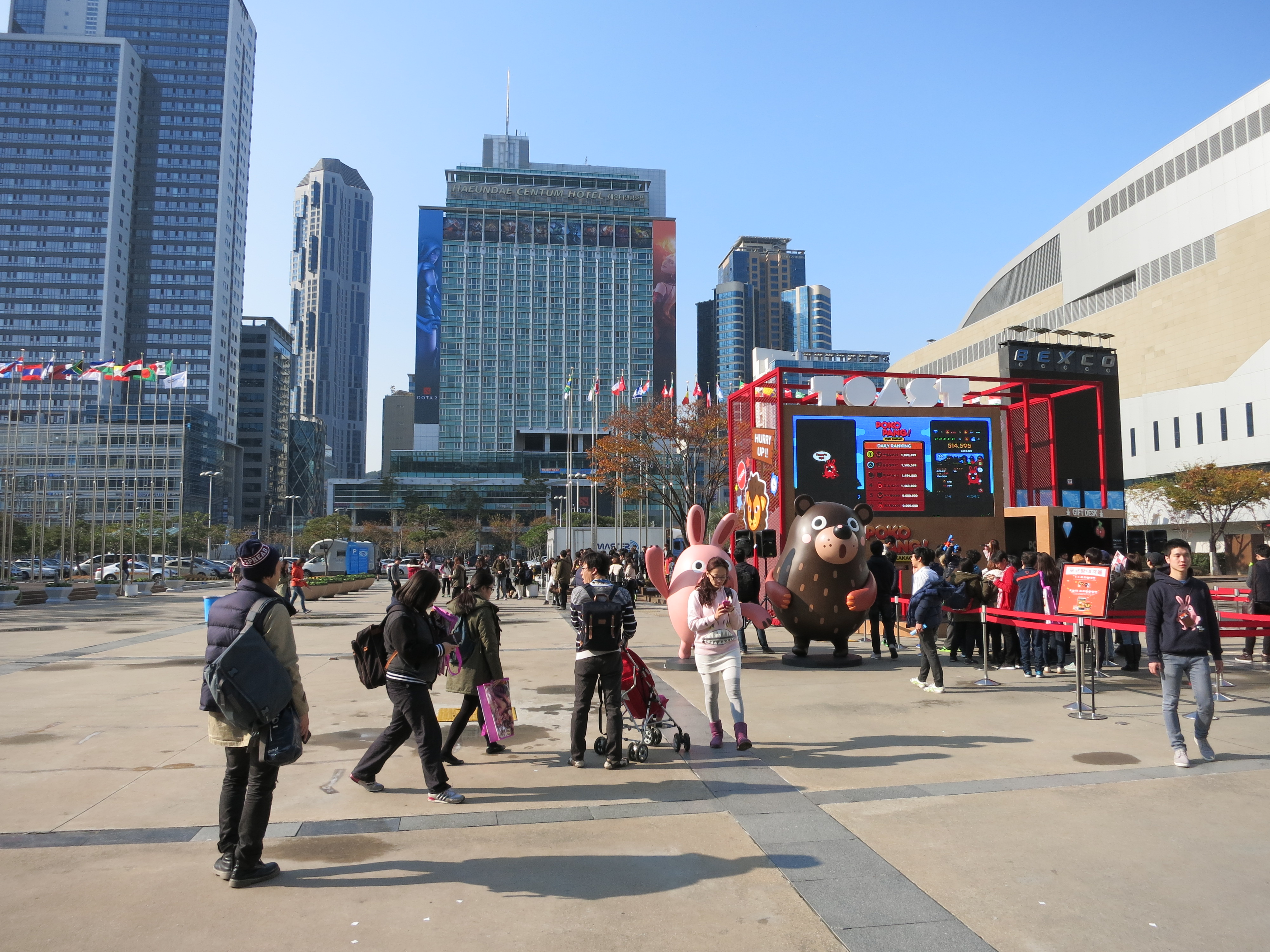 Plaza in Front of BEXCO and Centum City Skyline. Busan, South Korea. Photograph from Flickr; author Chris Yunker; license of cc by sa 2.0.